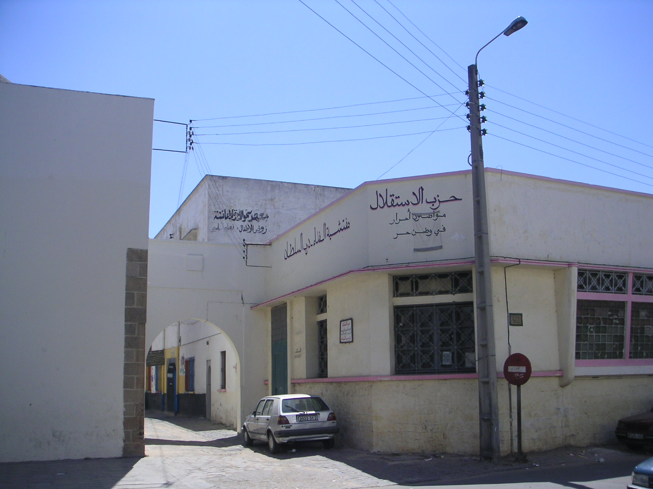 Istiqlal Party office in Casablanca. Photo: Soman